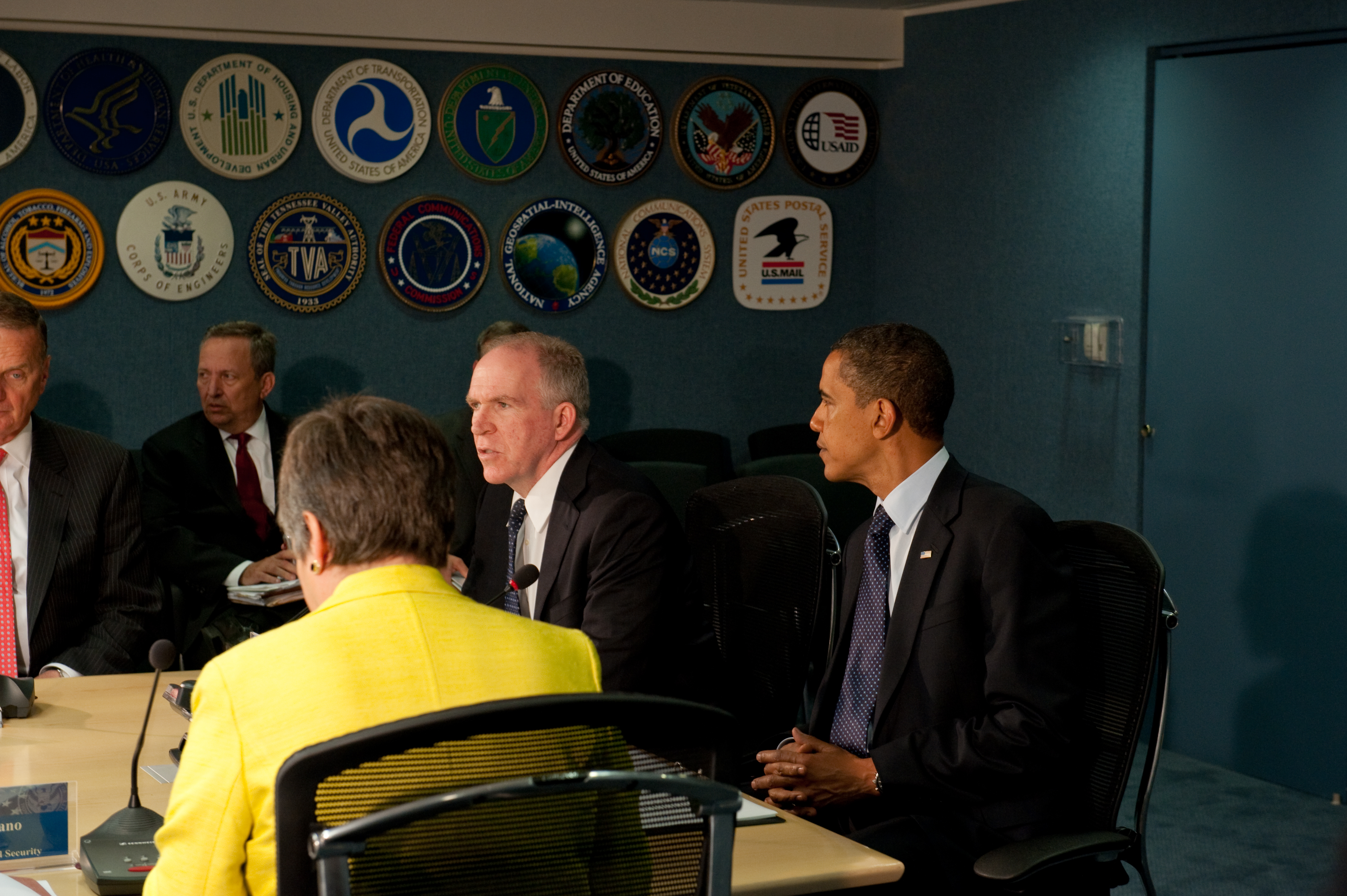 Washington, DC, May 29, 2009 -- President Obama at FEMA headquarters at a meeting of the Homeland Security Council, with him at the head of the table is the President of the Council, John O. Brennen. June 1 marks the beginning of hurricane season and Mr. Obama was briefed by Federal Agencies and Departments that respond to Hurricanes. FEMA/Bill Koplitz